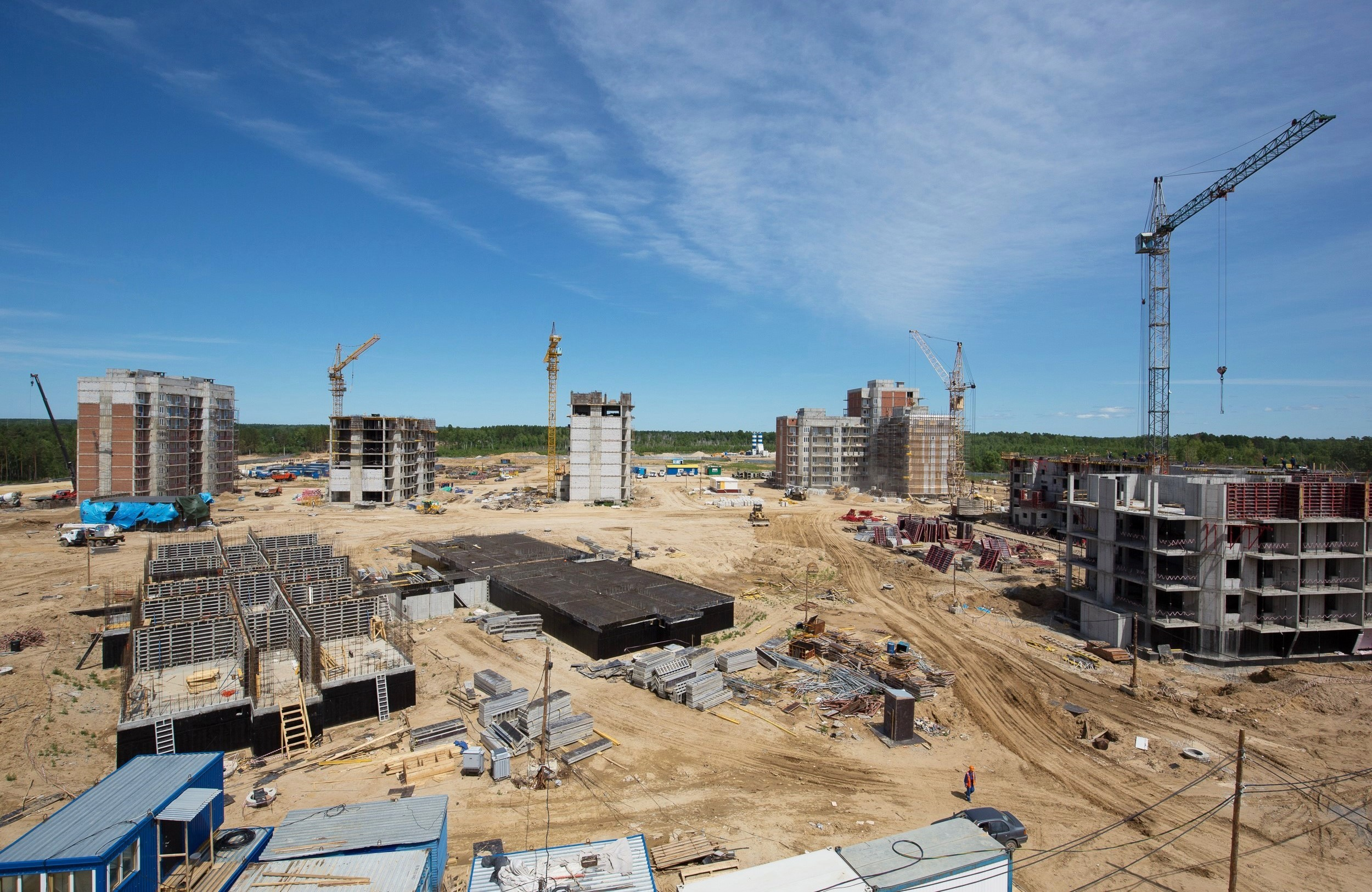 Construction of residential buildings in Tsiolkovsky, Amur Oblast, next to Vostochny Cosmodrome